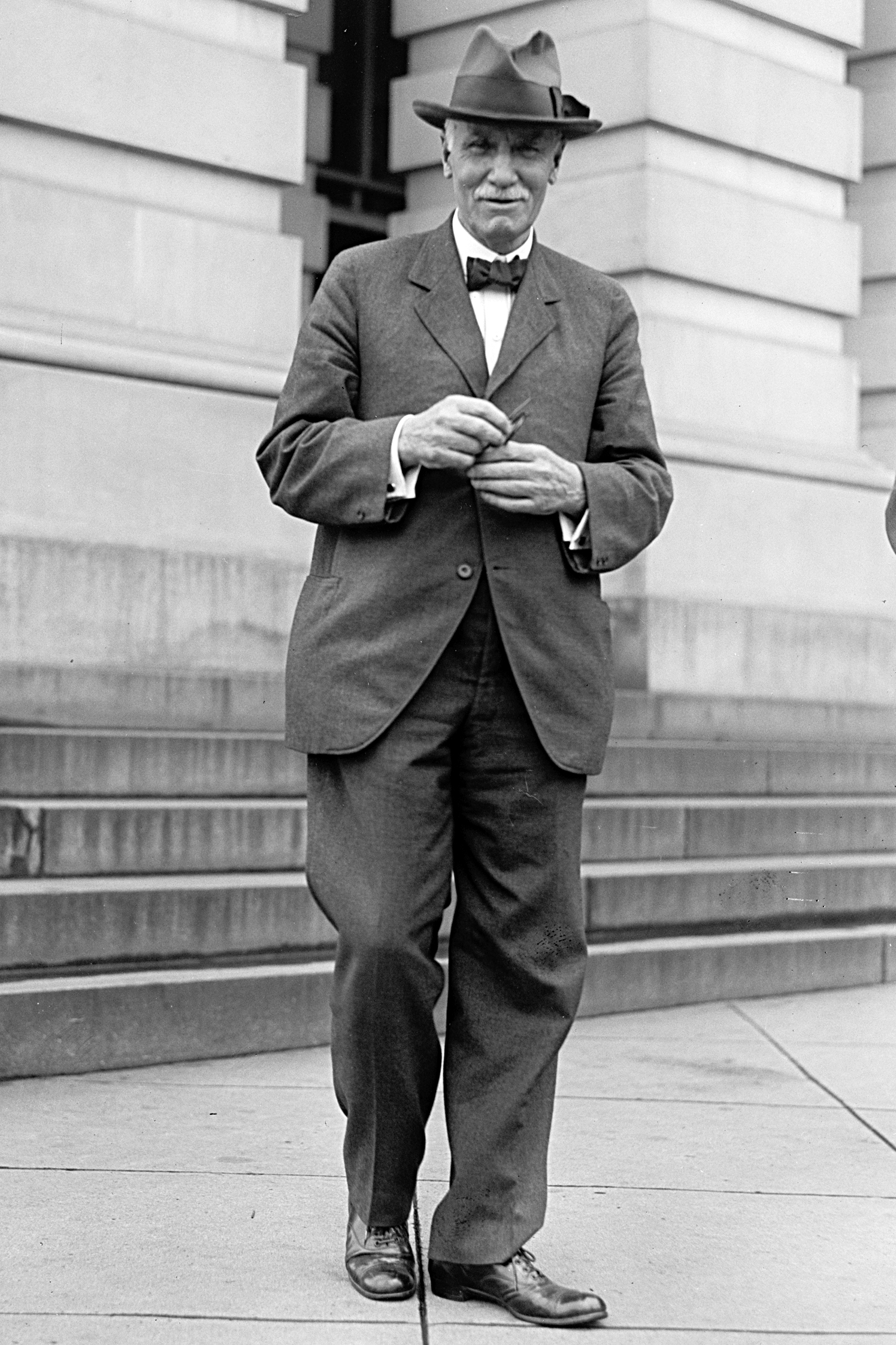 Thomas S. Butler, US Representative from Pennsylvania